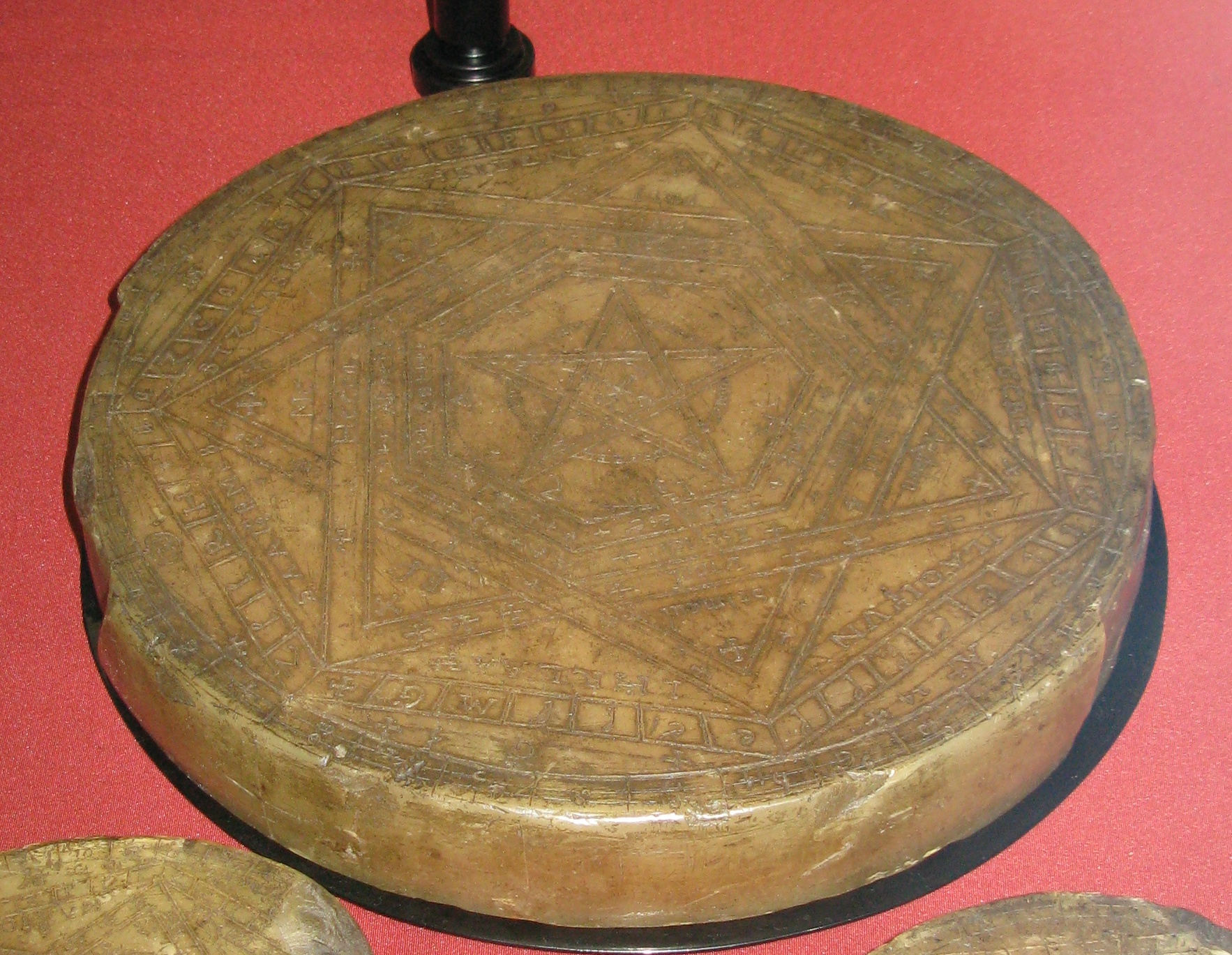 A large, elaborately-decorated wax "Seal of God", used to support John Dee's "shew-stone", the crystal ball used for scrying